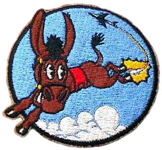 Emblem of the 376th Air Refueling Squadron (SAC) (1950s)